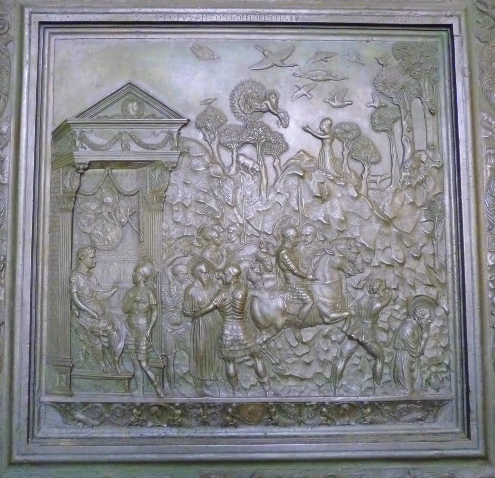 Porta del Filarete in St. Peter in Rome. Detail